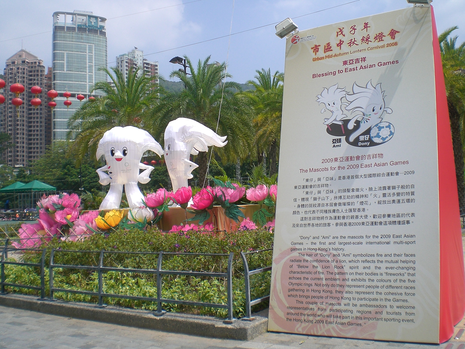 Statues of the mascots of the 2009 East Asian Games, Victoria Park, Hong Kong. Mascots are named Dony and Ami.